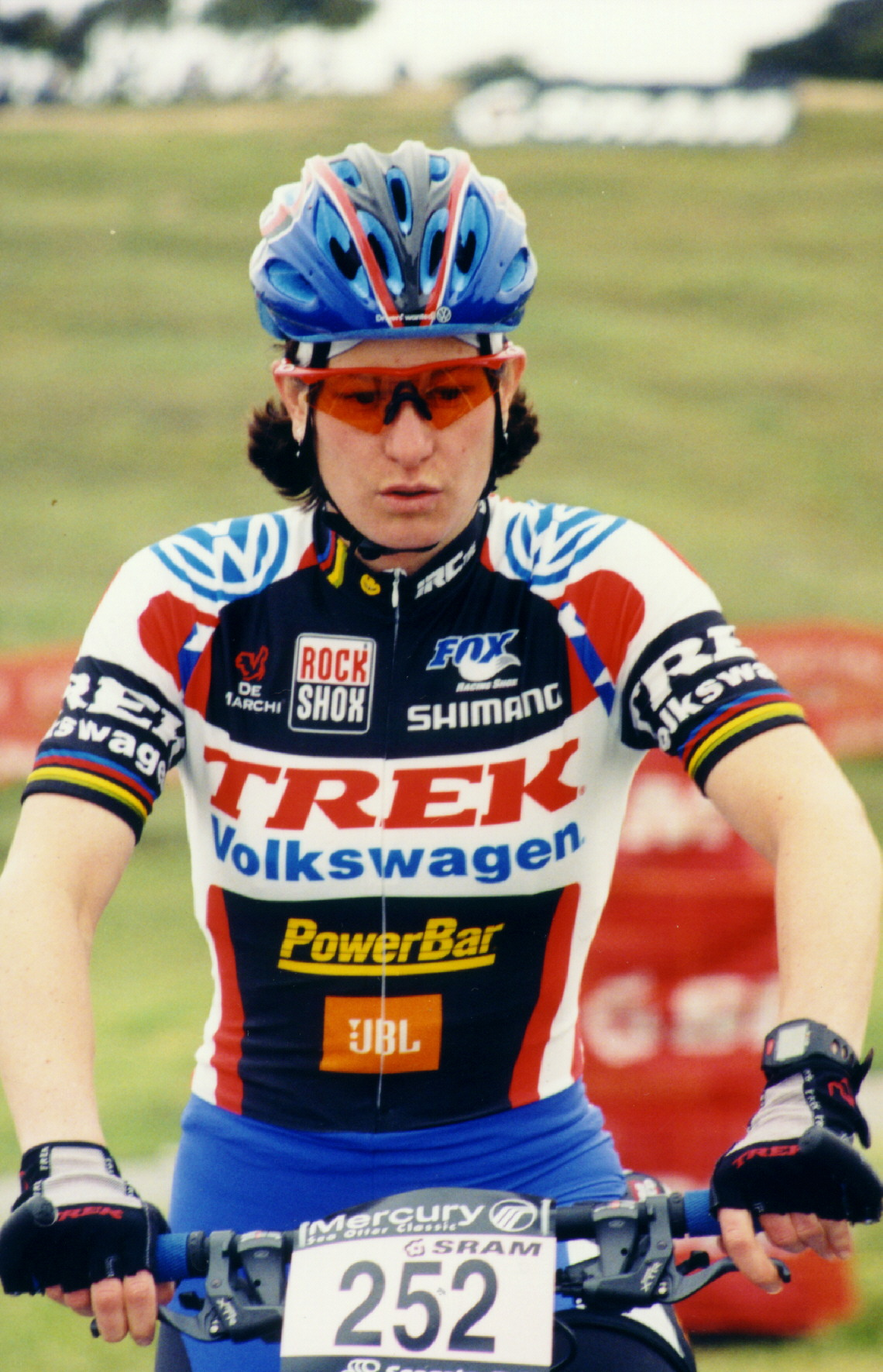 Former World Cross-Country Mountain Bike Champion Rutthie Matthes gets ready for her start in the time trial phase of the 2001 Sea Otter Classic MTB stage race.